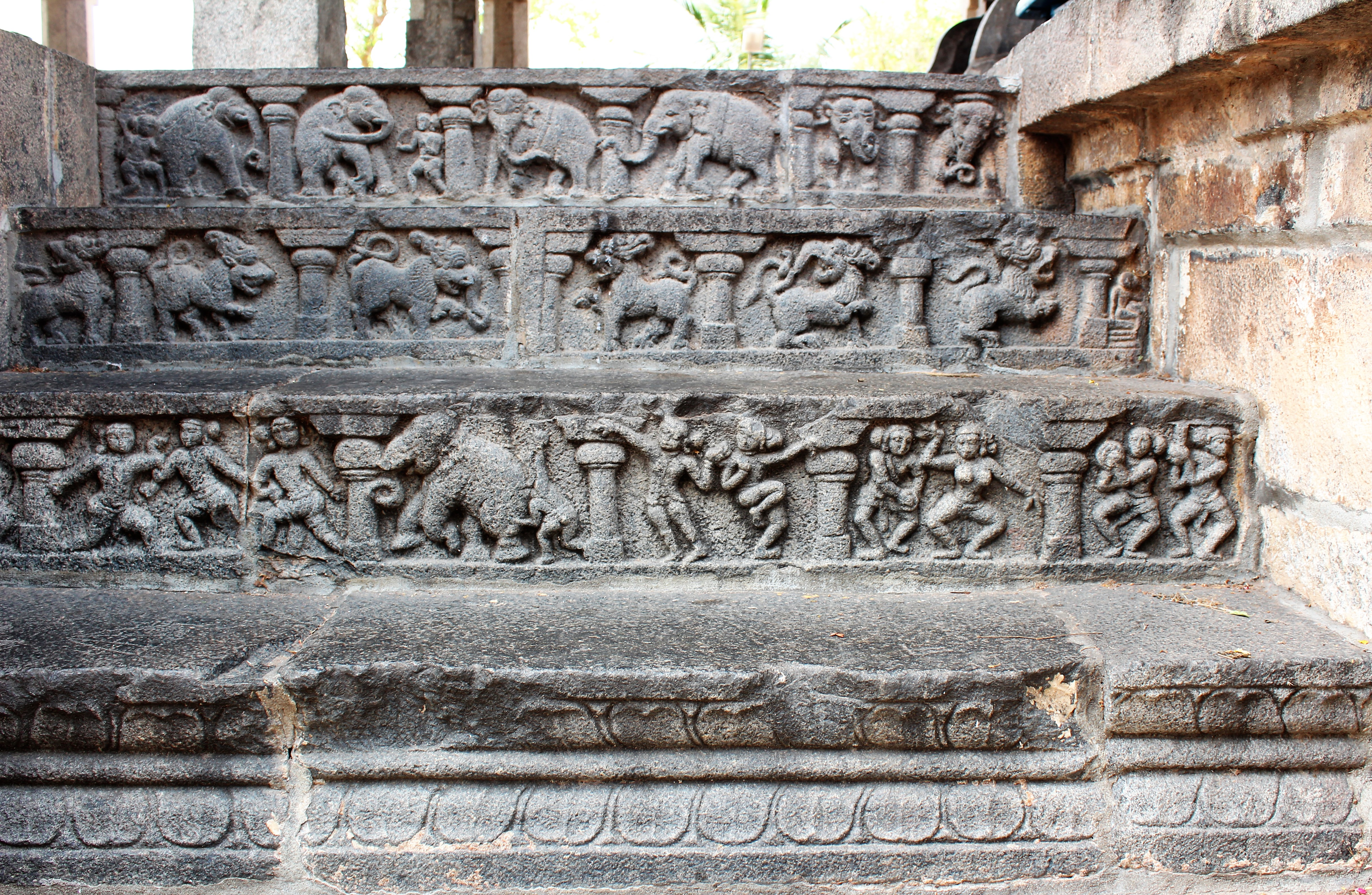 Varadharajaperumal temple, Thirubuvanai. Also called Thothathri temple in Villupuram district, Tamil Nadu, India